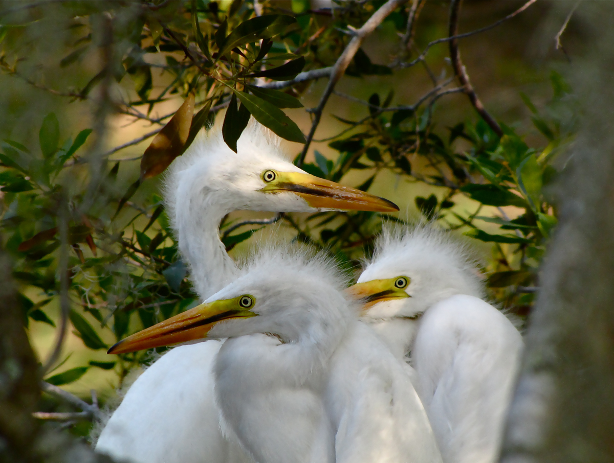 Photo taken at the rookery